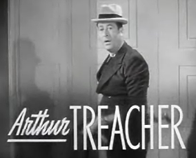 Cropped screenshot of Arthur Treacher from the trailer for the film Bridal Suite.